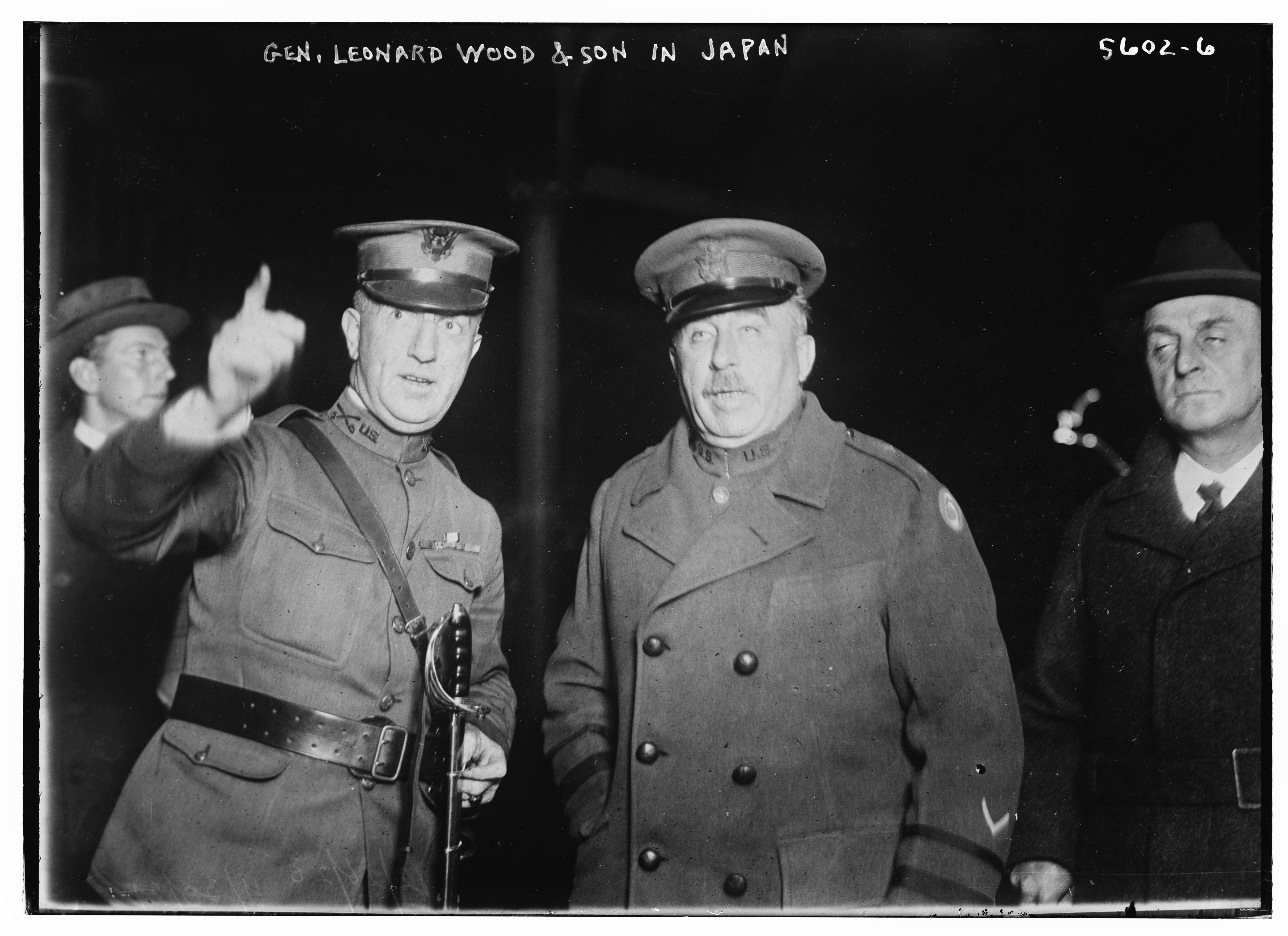 Title: Gen. Leonard Wood and son Osborne C. Wood in Japan, circa 1920. Leonard Wood commanded the 6th Corps Area from 1919 to 1921, and the unit's insignia is visible on his left shoulder. Abstract/medium: 1 negative : glass ; 5 x 7 in. or smaller.